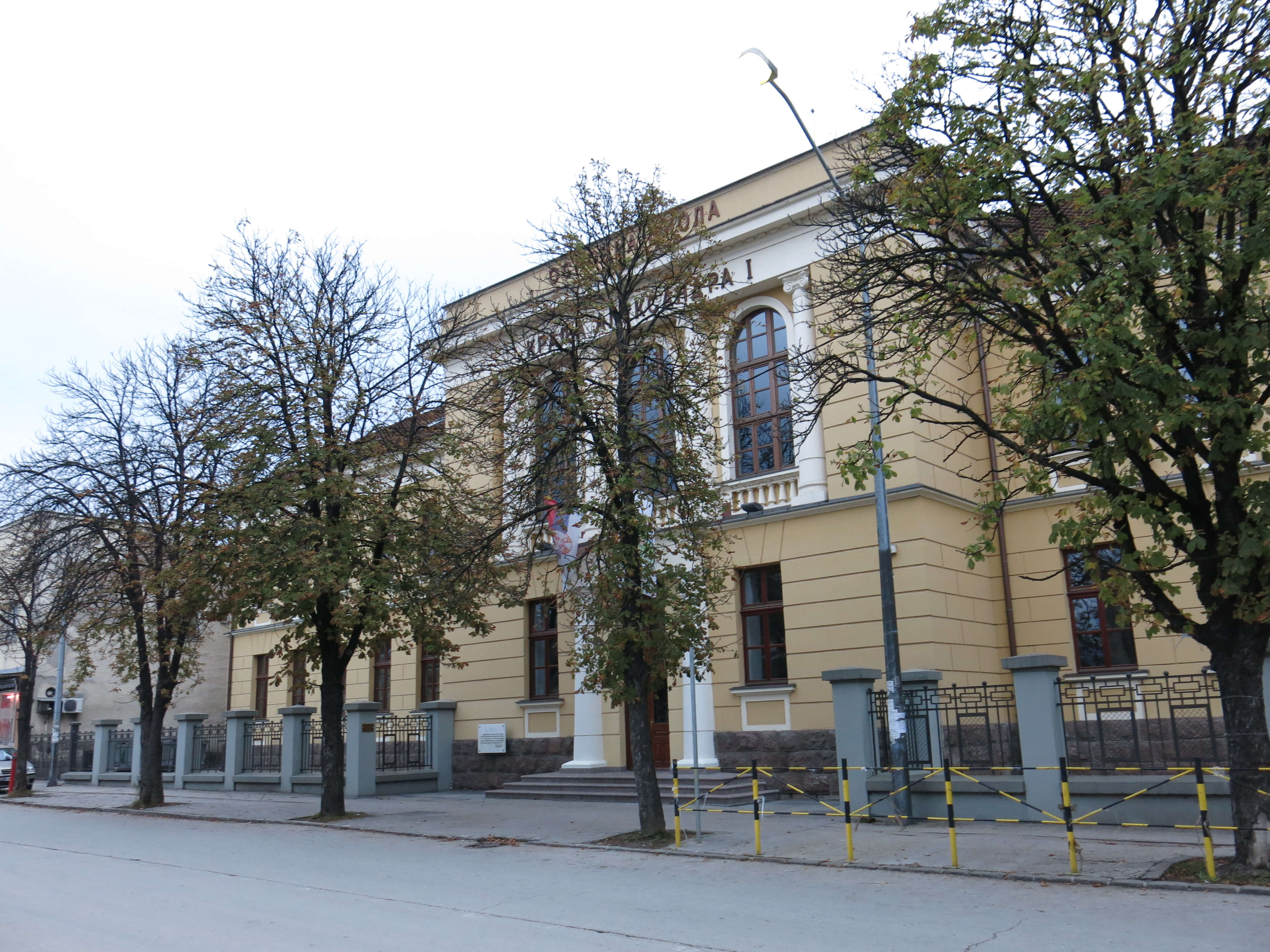 Gornji Milanovac, Elementary School Kralj Aleksandar I